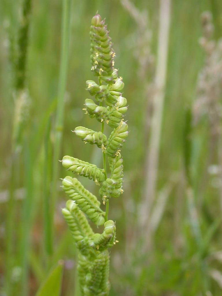 Beckmannia syzigachne (Poaceae) date:2006.04.09:rice field, Tanabe city, Wakayama pref. Japan Author;Keisotyo